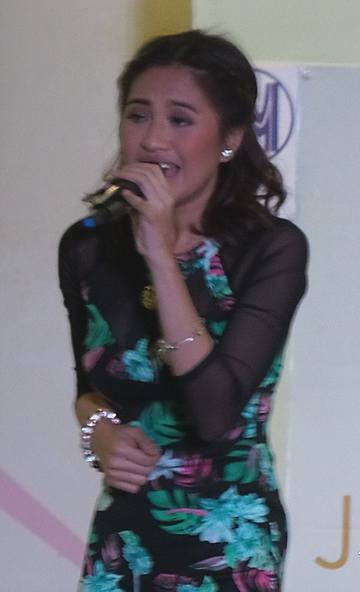 Julie Anne San Jose performing on her mall tour at SM City Baliwag, November 29, 2015.